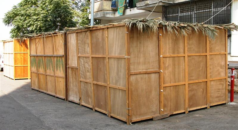 Sukkot with wall from wood.